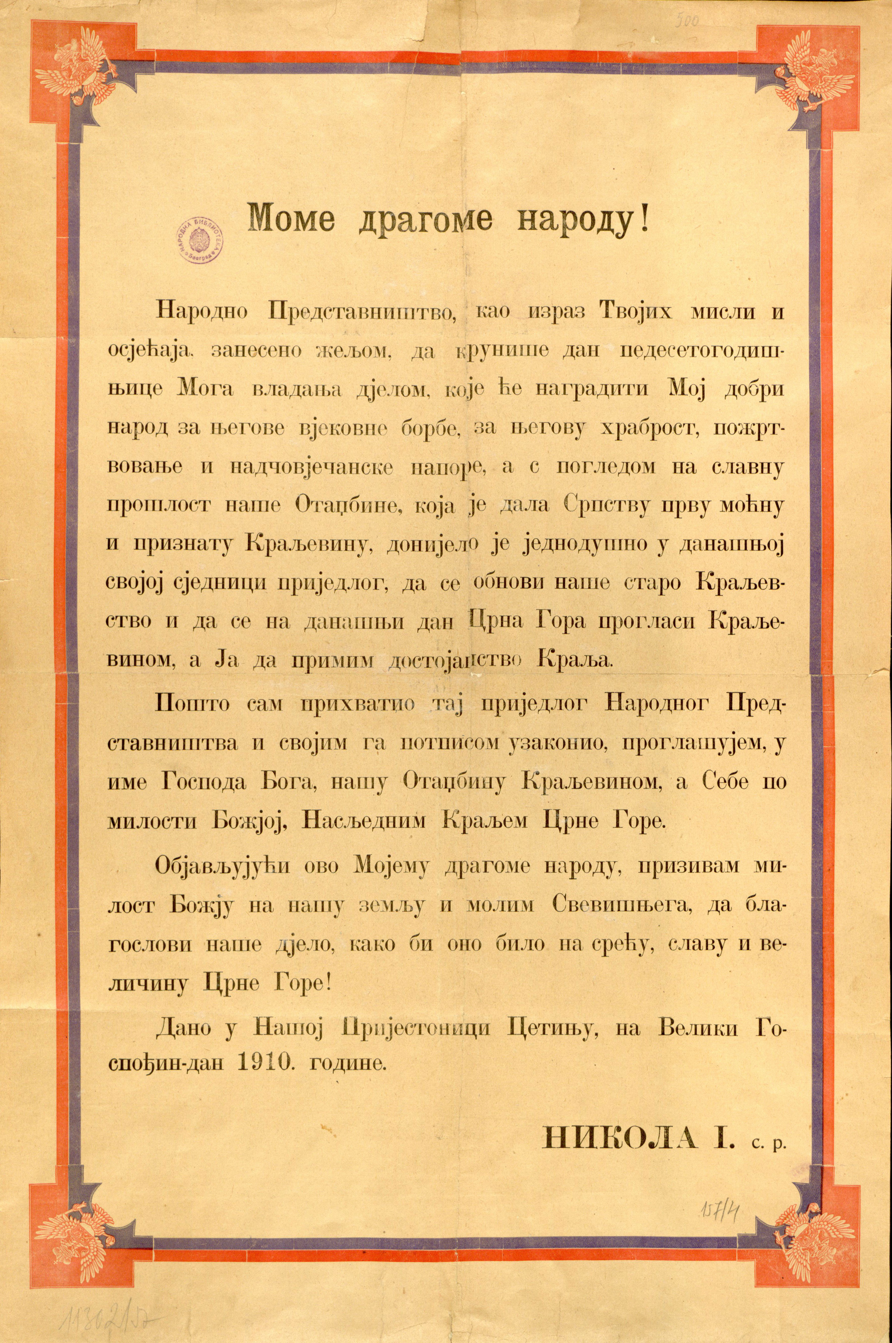 Text of the Proclamation of the Kingdom of Montenegro